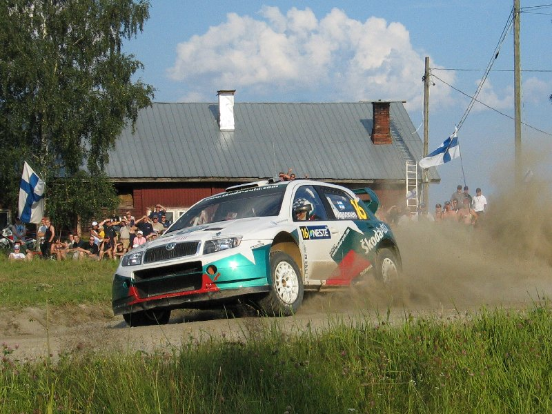 Jani Paasonen driving his Škoda Fabia WRC at the 2004 Rally Finland.